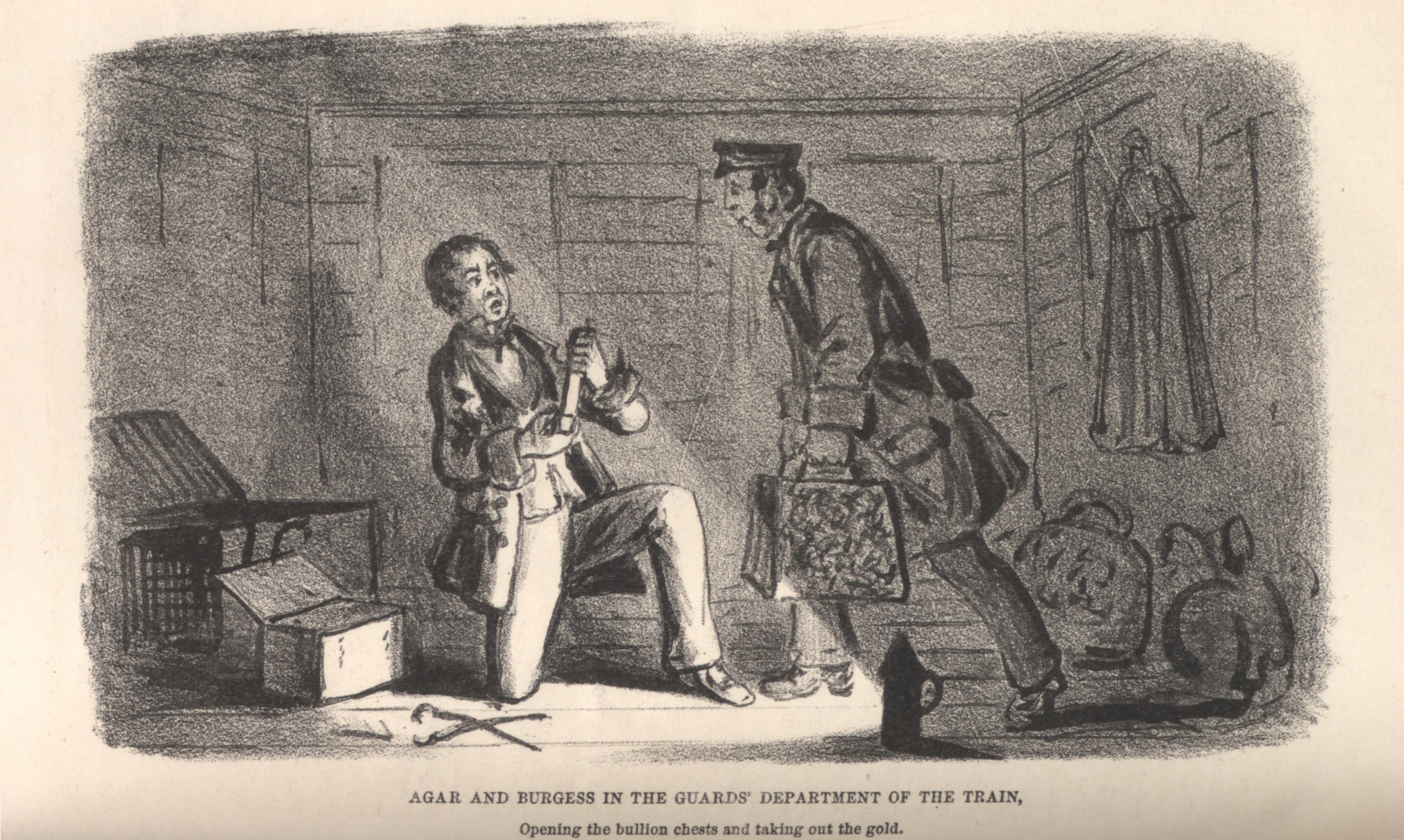 Agar and Burgess in the Guards' Department of the Train